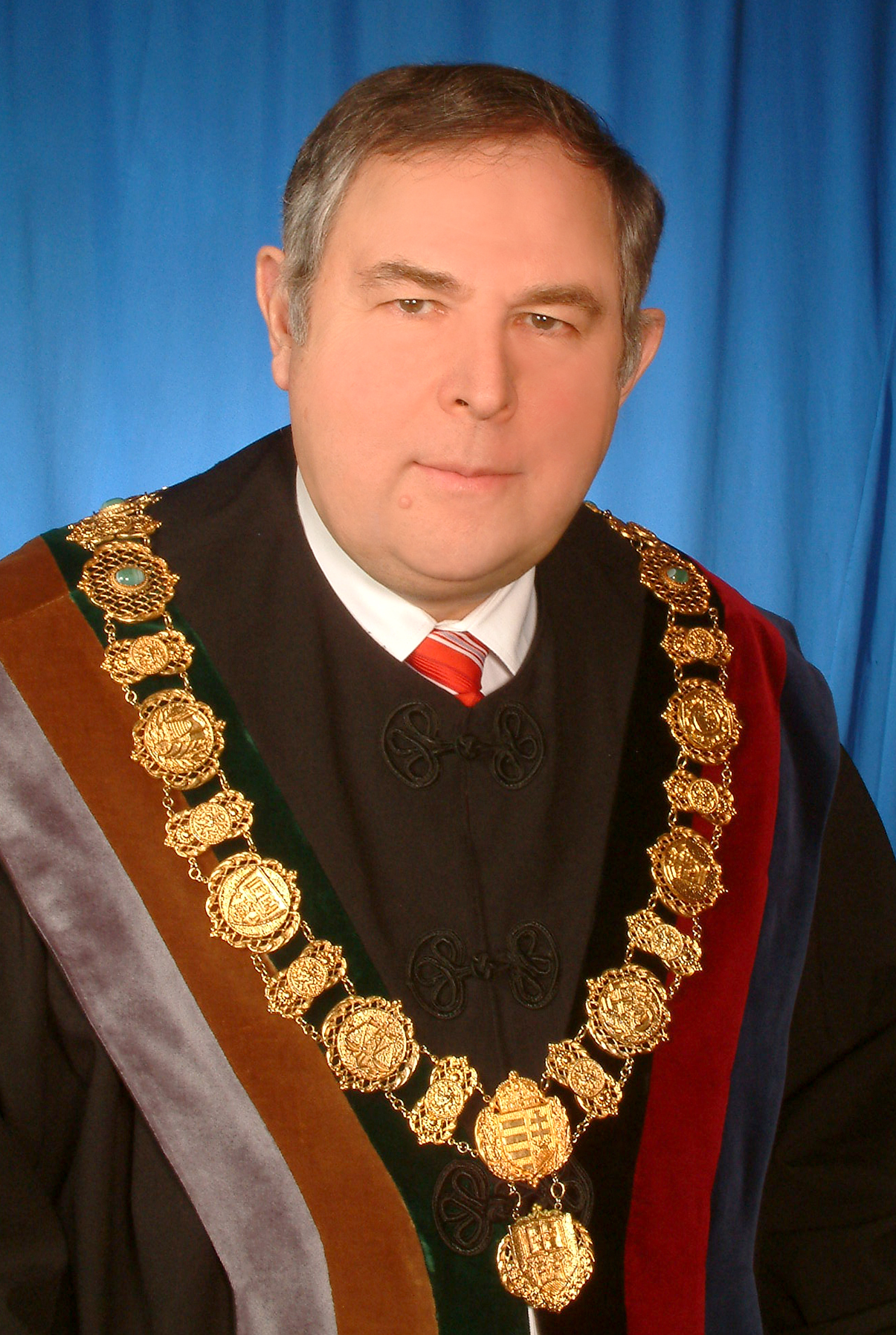 Professor doctor Gyula Patkó